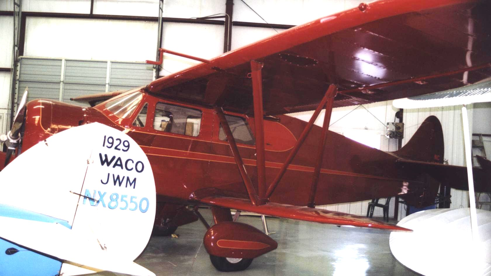 Waco AVN-8 cabin tri u/c undercarriage biplane of 1938 airworthy at the Historic Aircraft Restoration Museum, Dauster Field, St Louis, Missouri